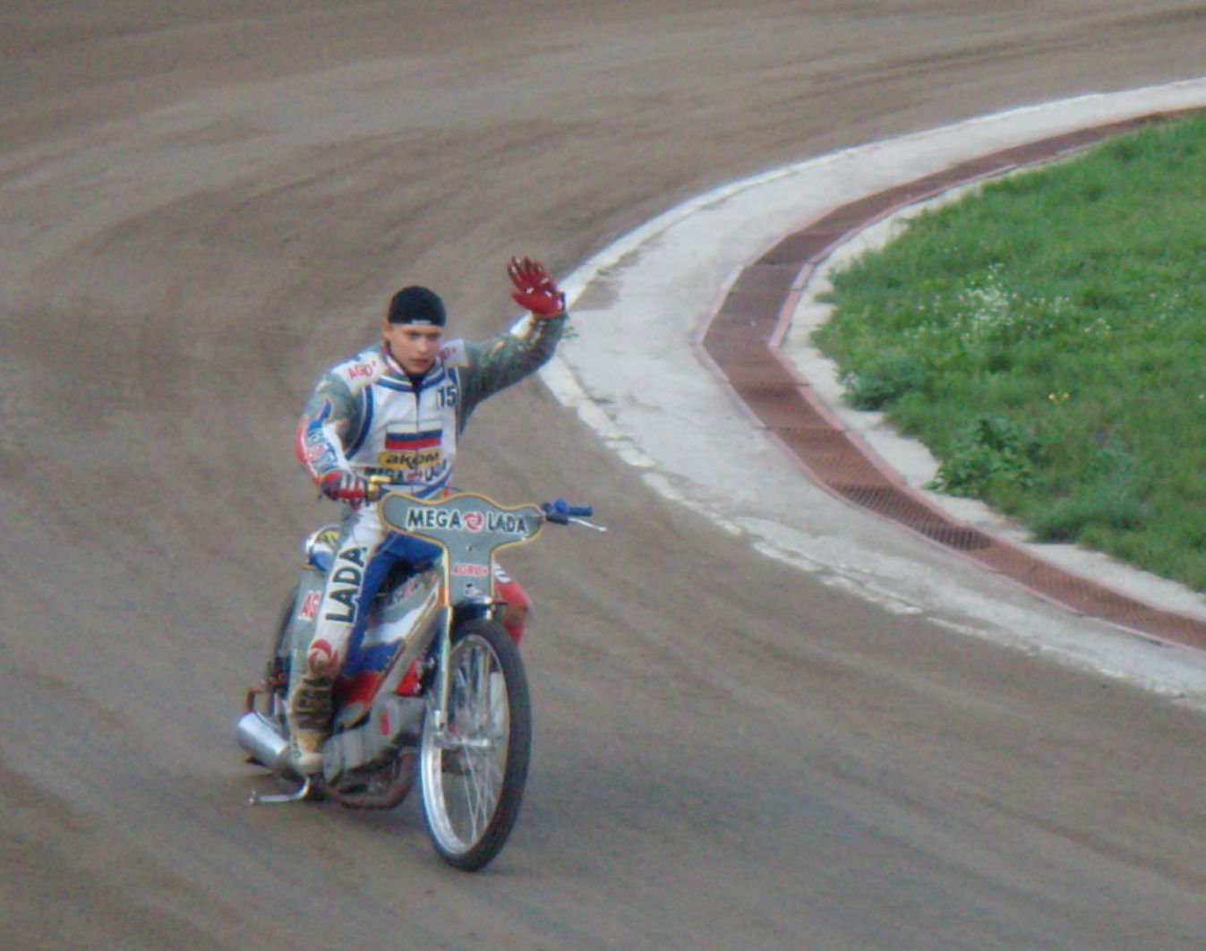 Emil Sajfutdinov after win, Togliatti, Russia